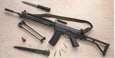 Imbel MD2 (FN FAL) with accessoires